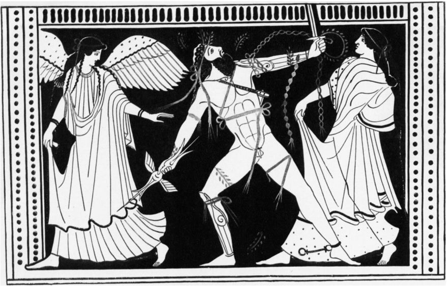 Salmoneus wielding a sword and a thunderbolt-like thingy. He just broke the chains that contained him, the madman, and acts like Zeus. To his left is Iris, to the right his astonished wife. Attic red-figure column crater, first half of the 5th century BC. Now in the Chicago, Art Institute 1889.16. This painting was first published by Ernest Arthur Gardner (1899) and attributed as Athamas in madness. In 1903 Carl Robert corrected this interpretation to Salmoneus.